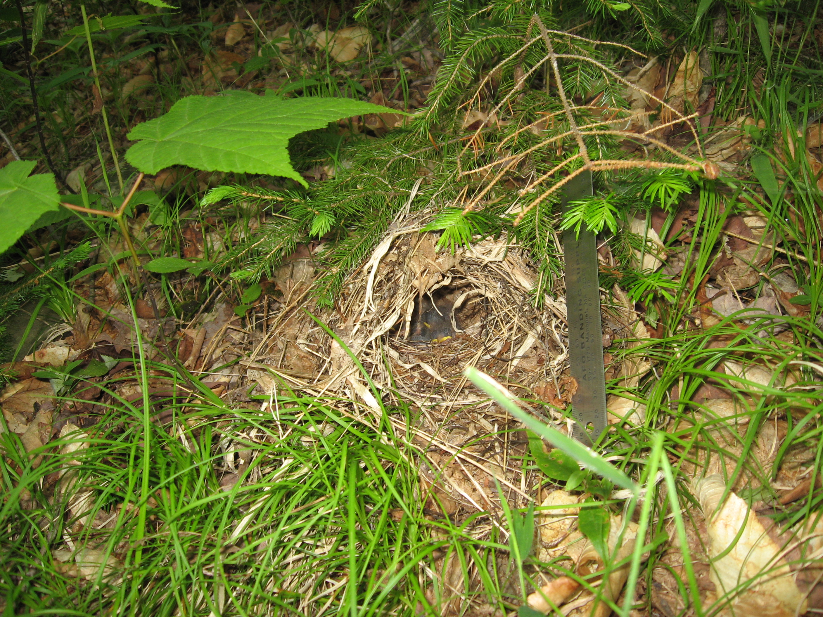 A Seiurus aurocapilla (ovenbird) nest at the Bear Brook Watershed on Lead Mountain, Maine.